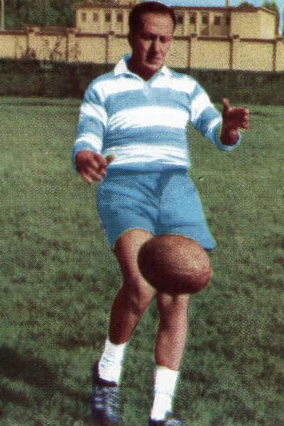 Italian rugby union player Marcello Martone in 1966 wearing the jersey of Partenope Rugby, Neaples-based rugby union club